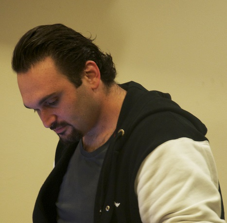 Comedian Nemr Abou Nassar